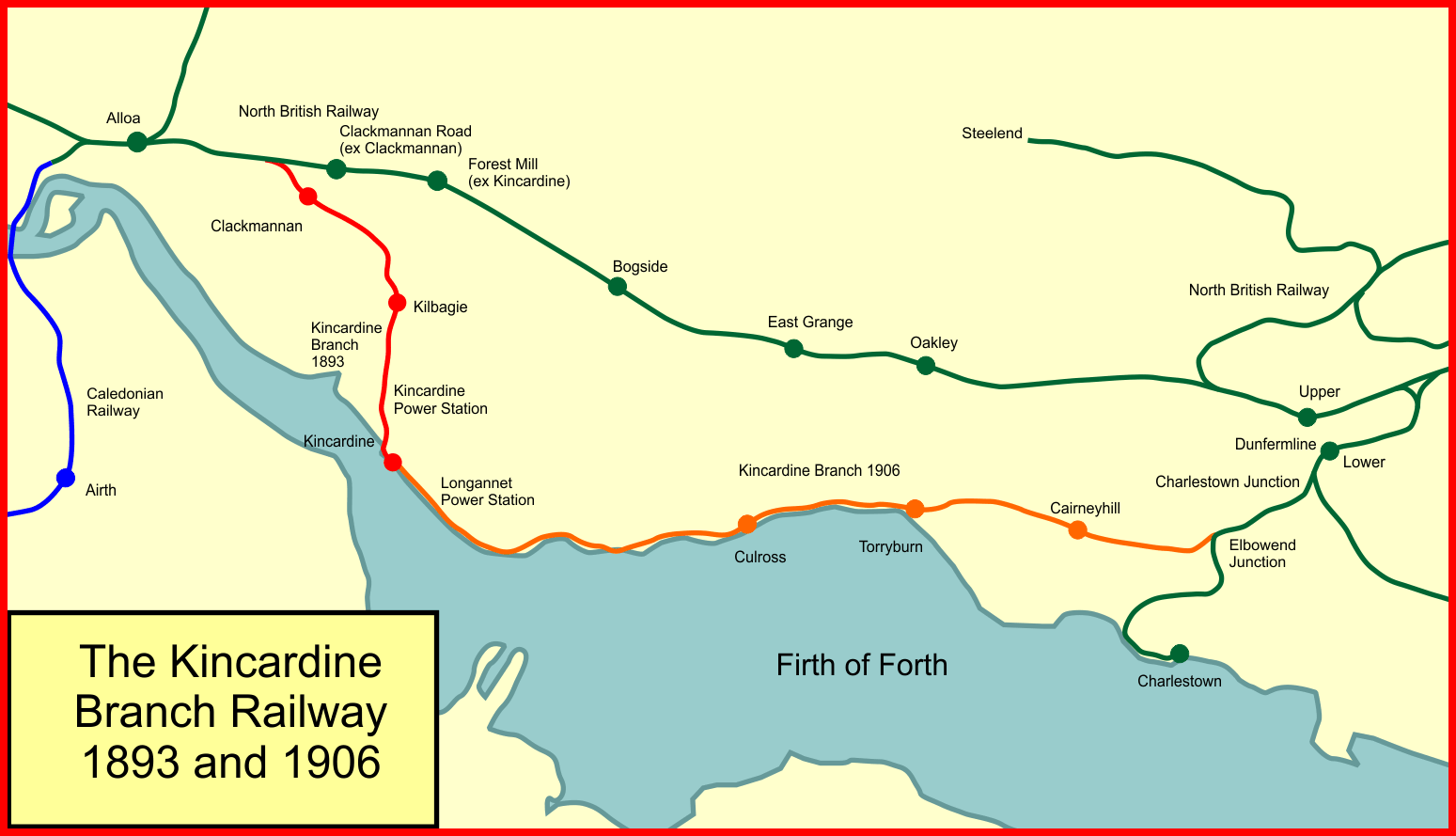 System map of the Kincardine branch line in Scotland, 1893- 1906